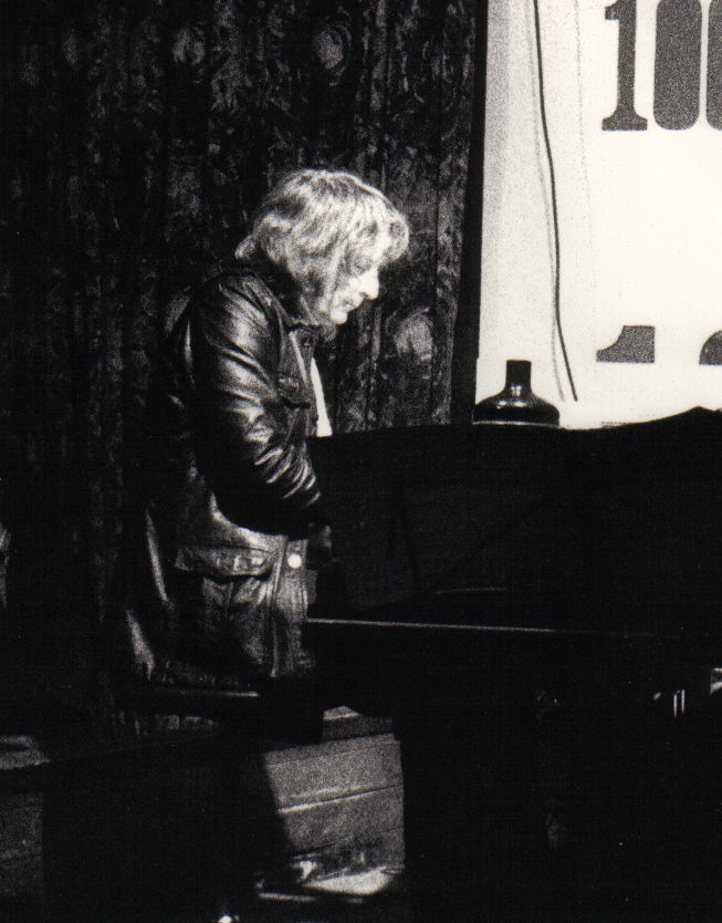 Stan Tracey playing in the 100 Club, London sometime in the 1980's